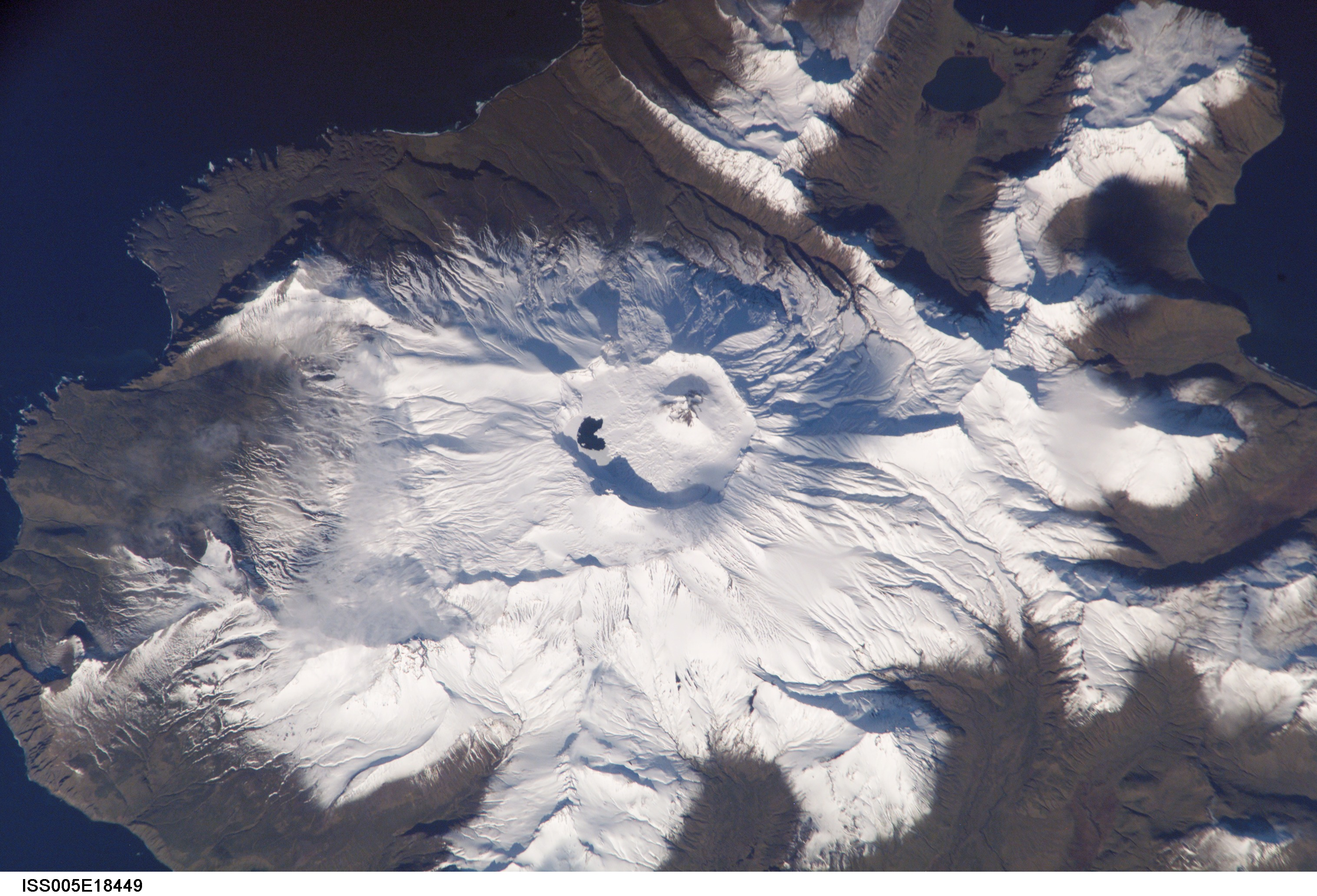 Akutan Island (Aleuten)